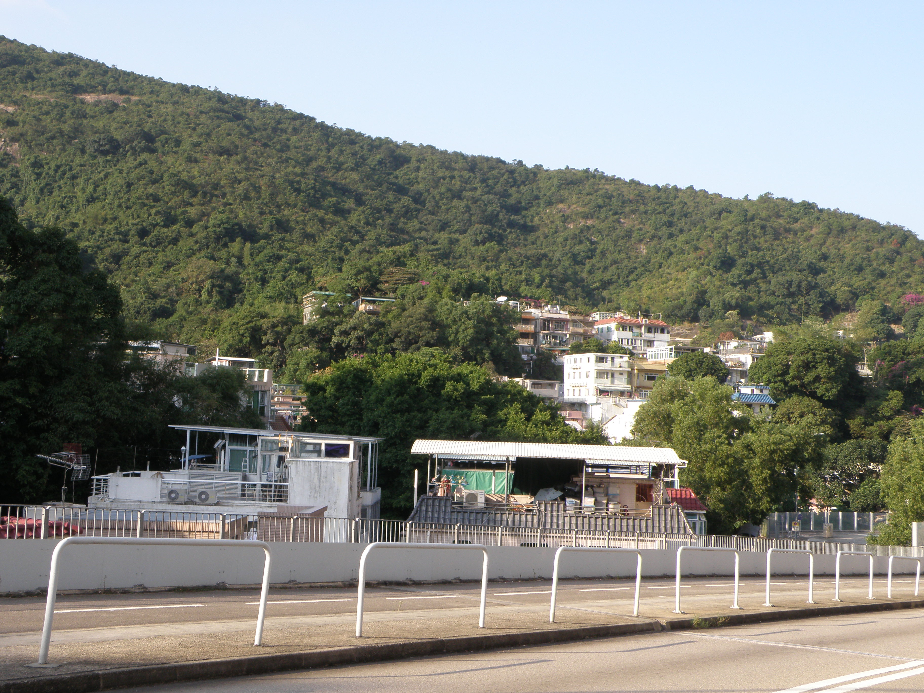 Lok Lo Ha (village) in Fo Tan, Hong Kong.